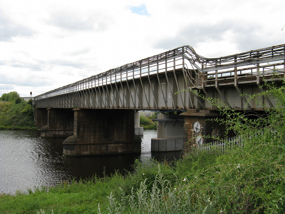 This is an image of the 1906 Tees Valley Line bridge over the river Tees. The masonry piers date from 1844 while a new steel plate girder superstructure was added in 1906 and was in use until 2009.